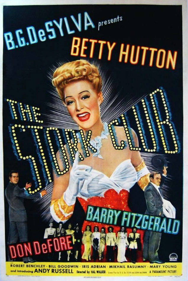 Poster for the 1945 film The Stork Club.